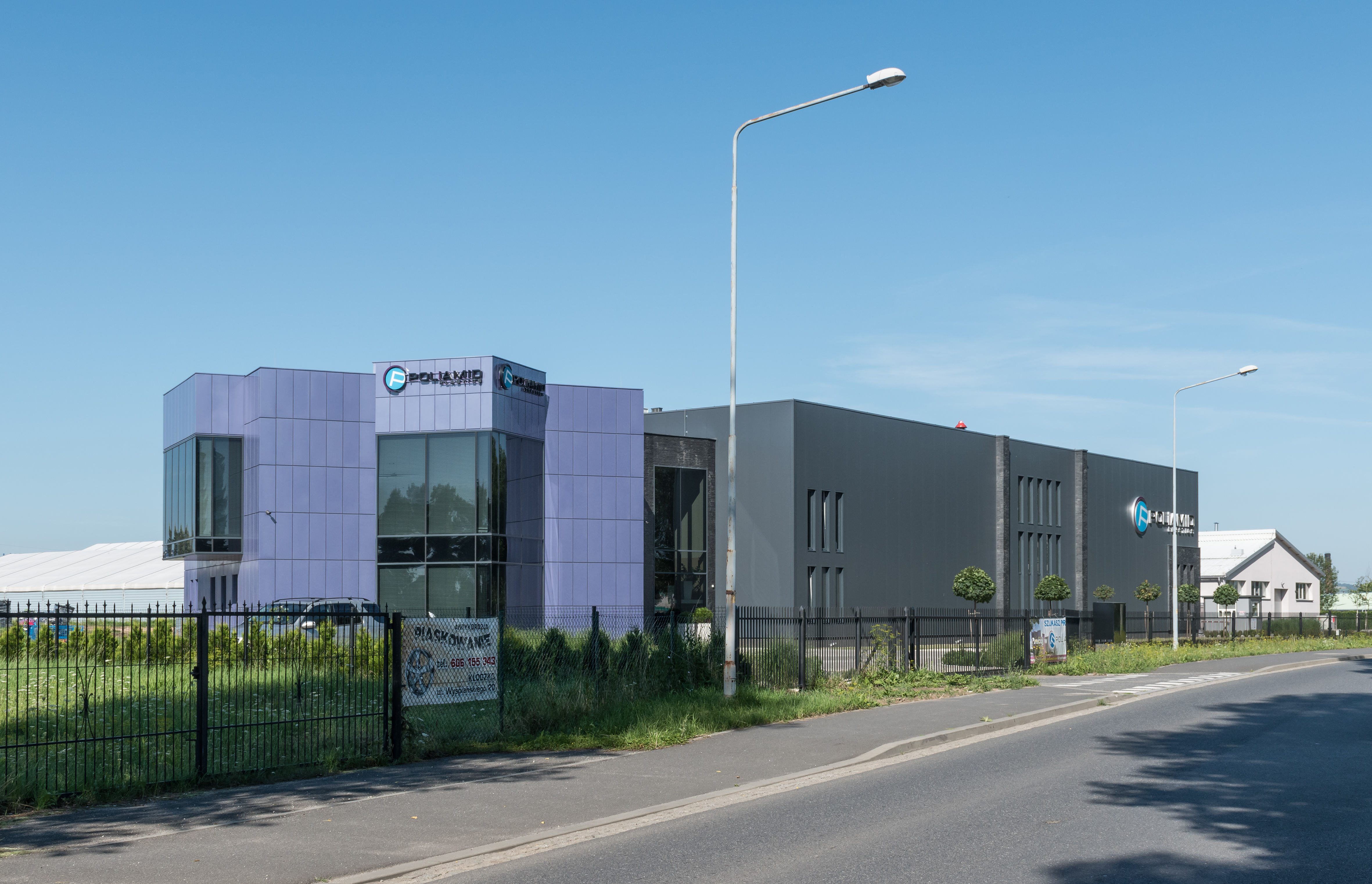 Poliamid Plastics plant in Kłodzko